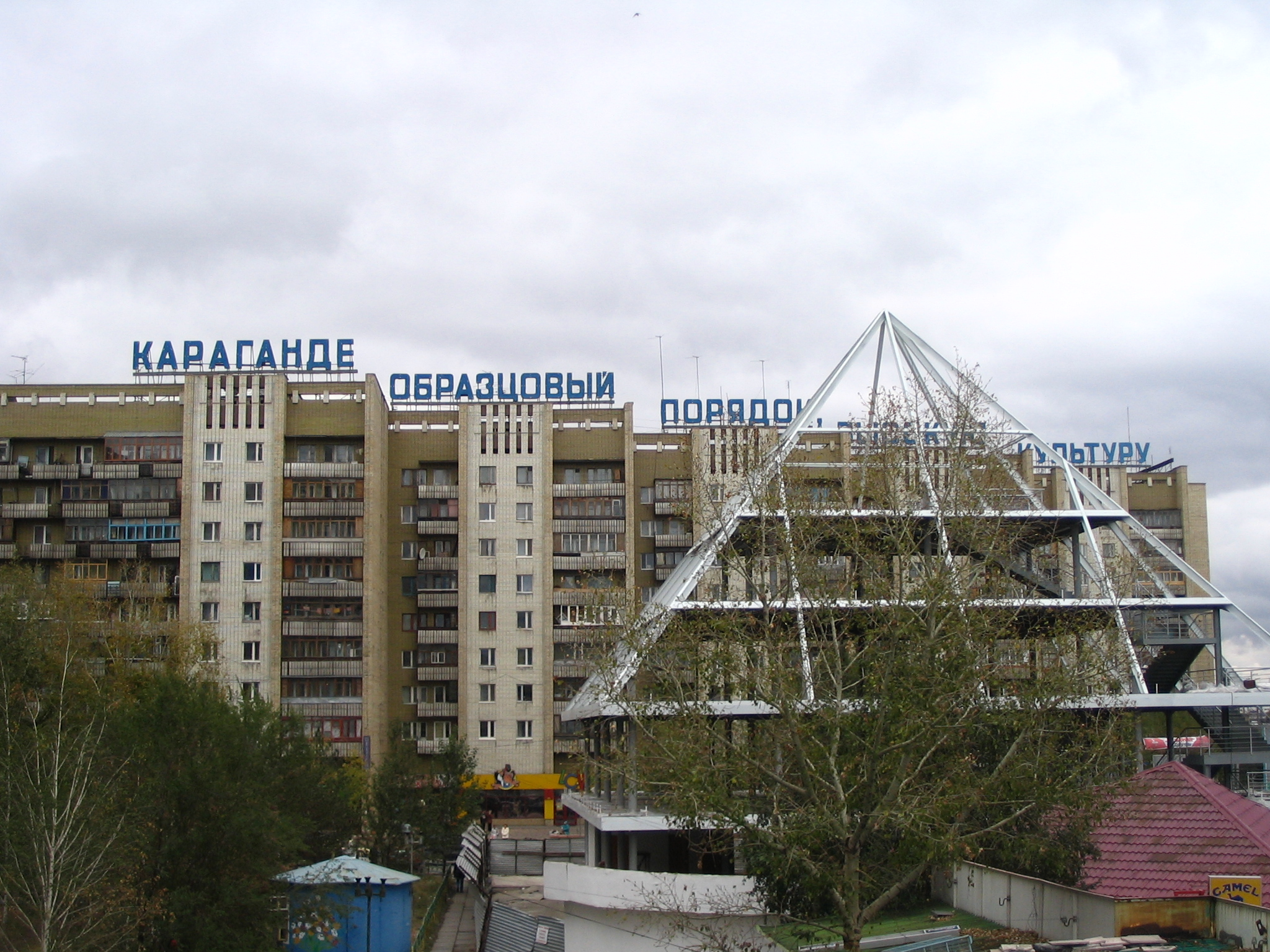 Karaganda, Kazakhstan